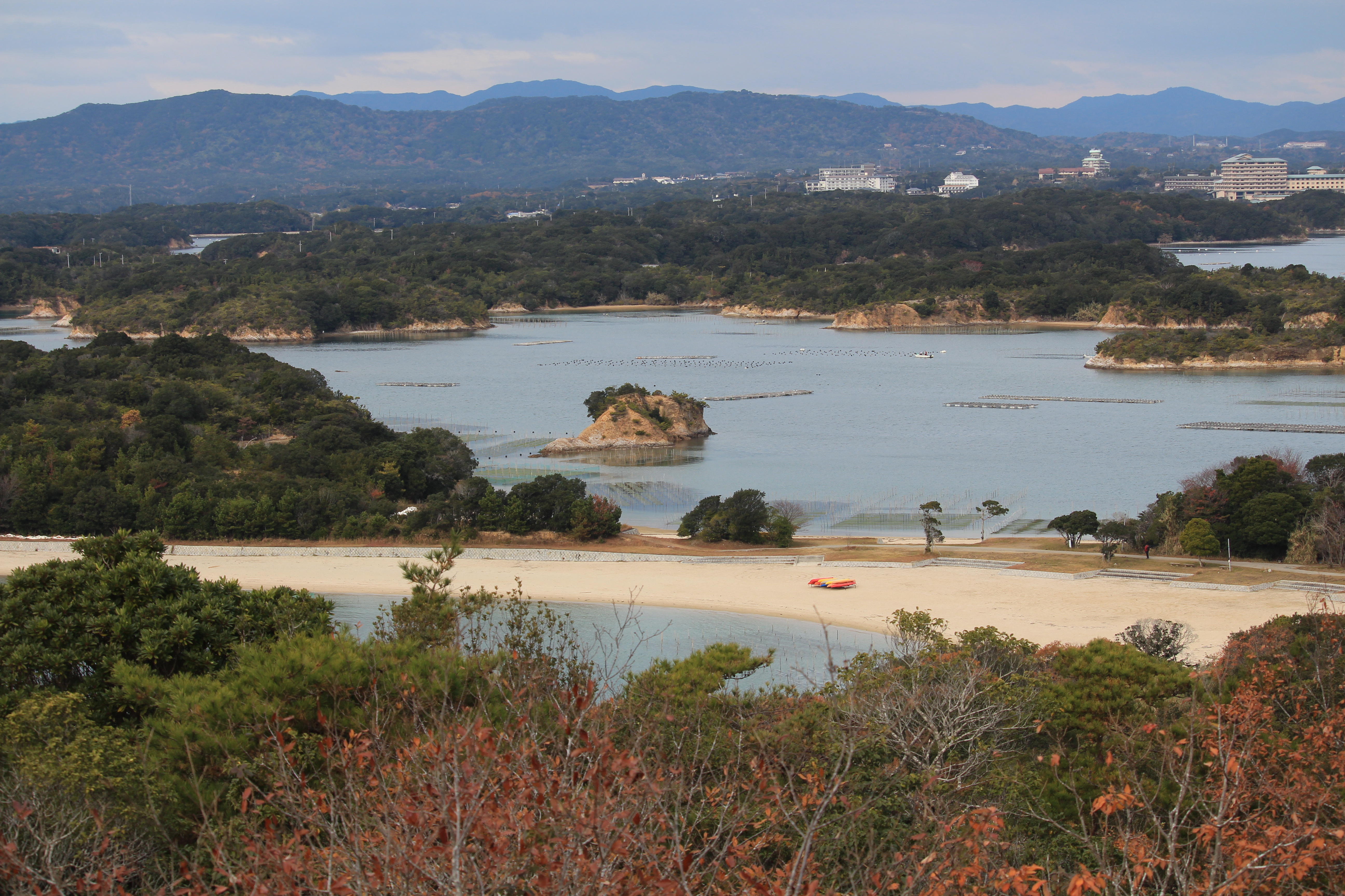 Islands in Ago Bay and Mount Yoko seen from Tomoyama viewpoint in Shima, Mie prefecture, Japan.